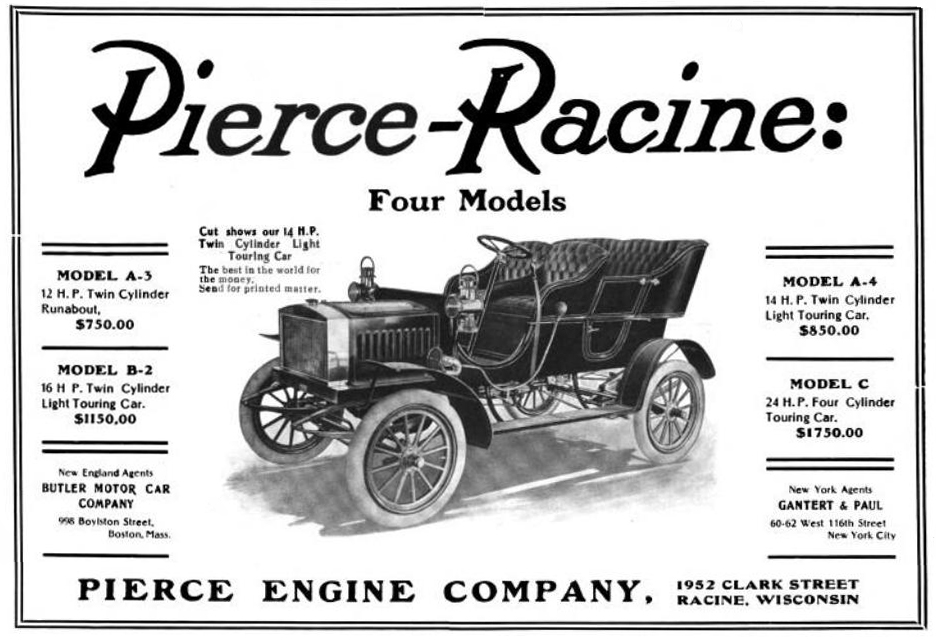 Pierce Engine Company of Racine, Wisconsin - 1906